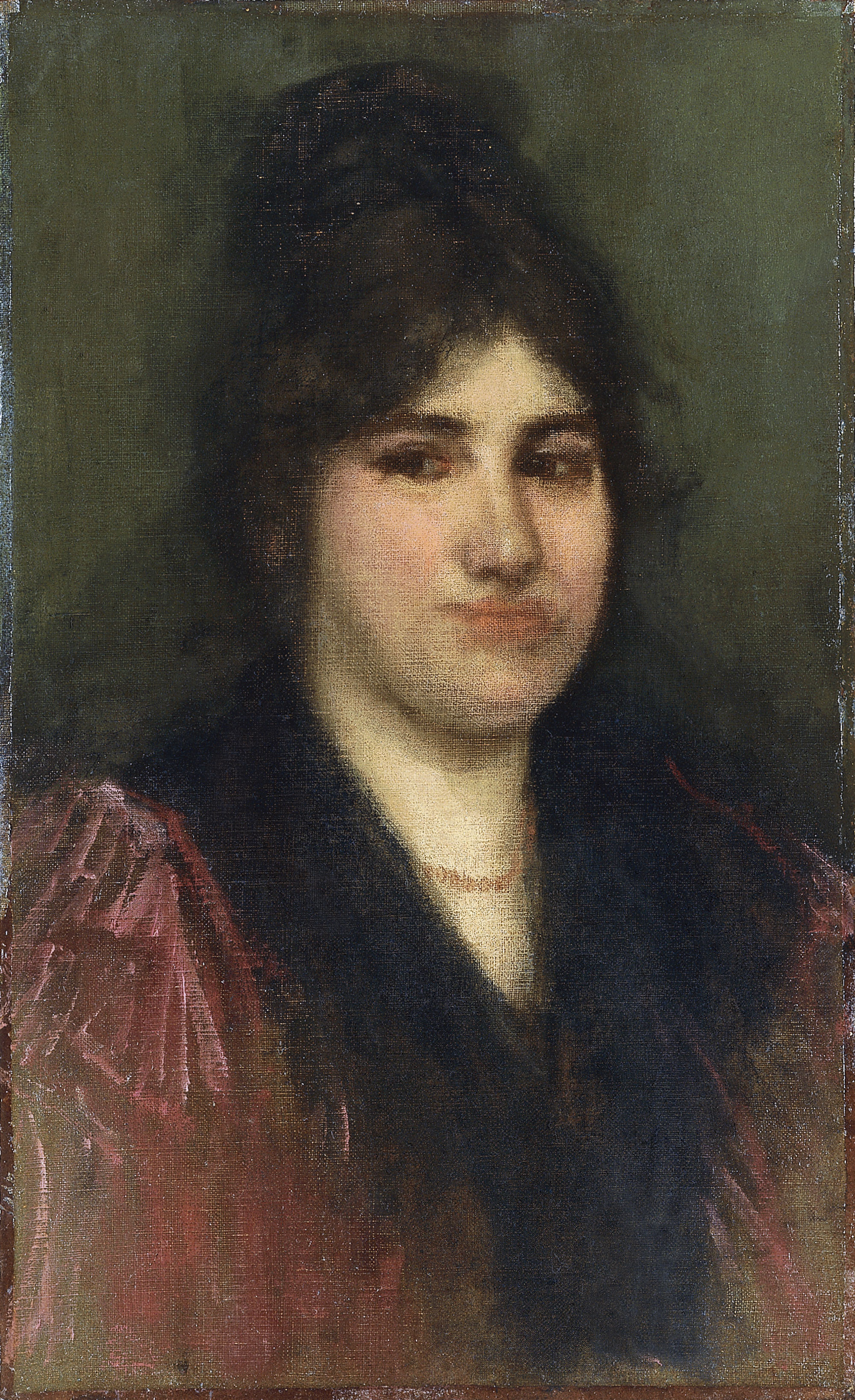 Caption from the museum's website Carmen Rossi, the sitter of this small portrait, was an Italian girl who posed for Whistler as a child and later, during the 1890s, became his favourite model. In addition to being portrayed in the Museo Thyssen-Bornemisza painting, the young women is also depicted in Crimson note: Carmen and Harmony in Rose and Green: Carmen. As can be inferred from the titles, Whistler subordinated the model’s personality to compositional and chromatic effects. In the case of Rose et or: La Napolitaine, the title is taken from the young woman’s gold choker and the rose-hued dress or the reddish-gold of the frame, which was designed by Whistler himself. The artist, who conceived his work in terms of decorative effect and visual impact, wrote in this connection, “A beautiful picture should be shown beautifully [...] it must be hung so it can be seen, with plenty of wall-space around it in a room made beautiful by colour, by sculpture judiciously placed, by furniture and decorations and hangings in harmony.”